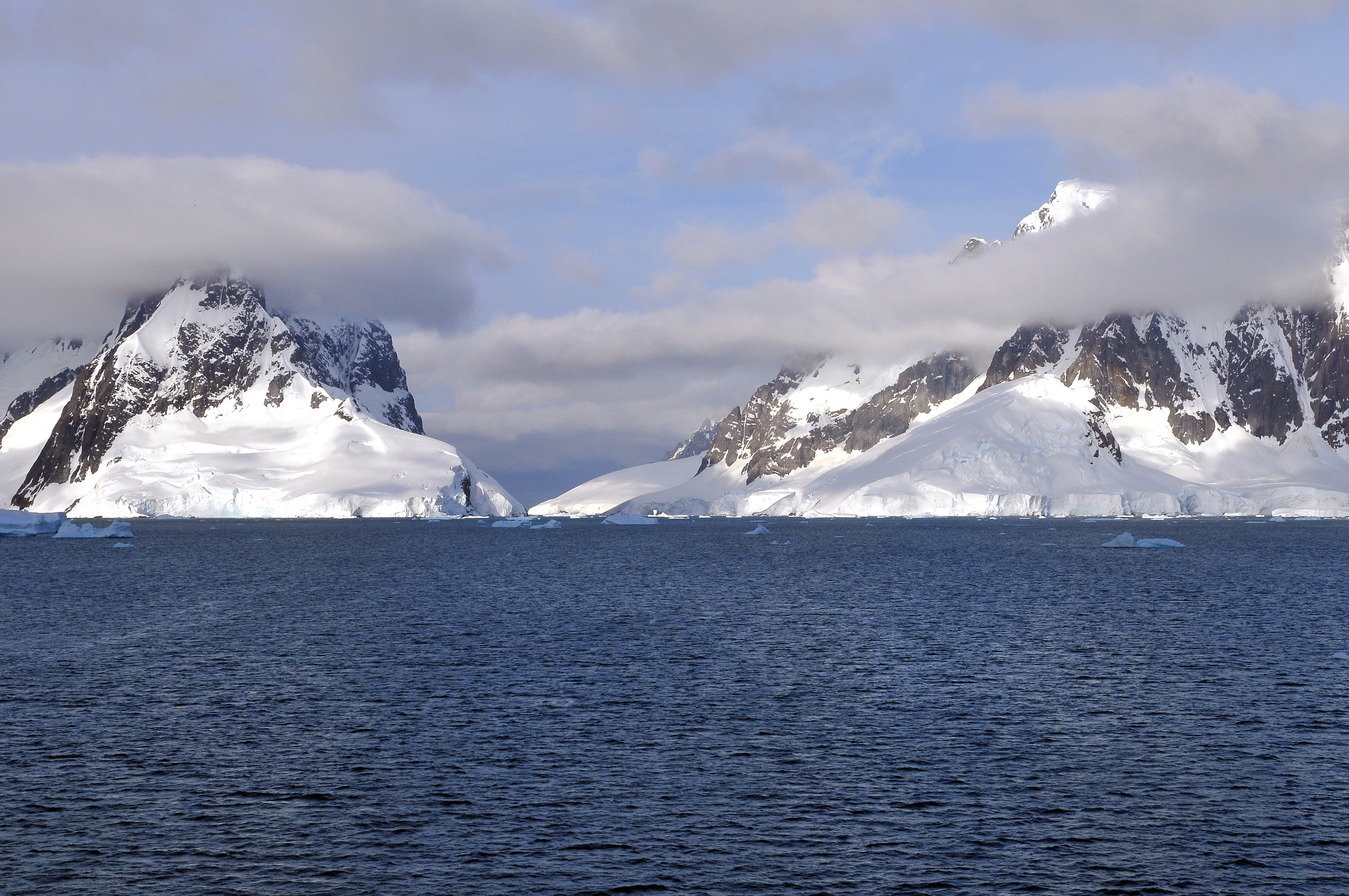 South entrance of the Lemaire Channel, Antarctica